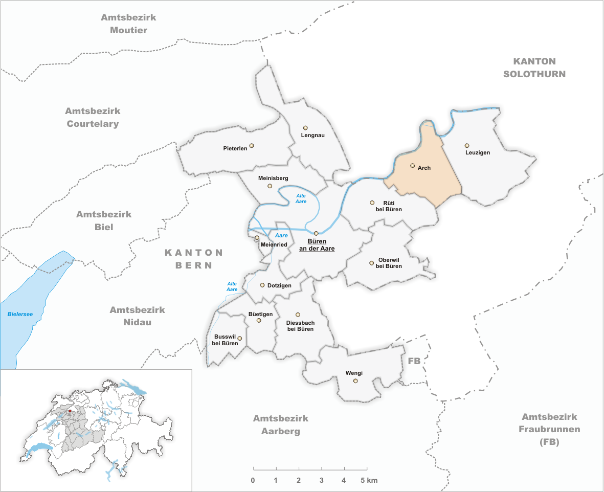 Municipality Arch